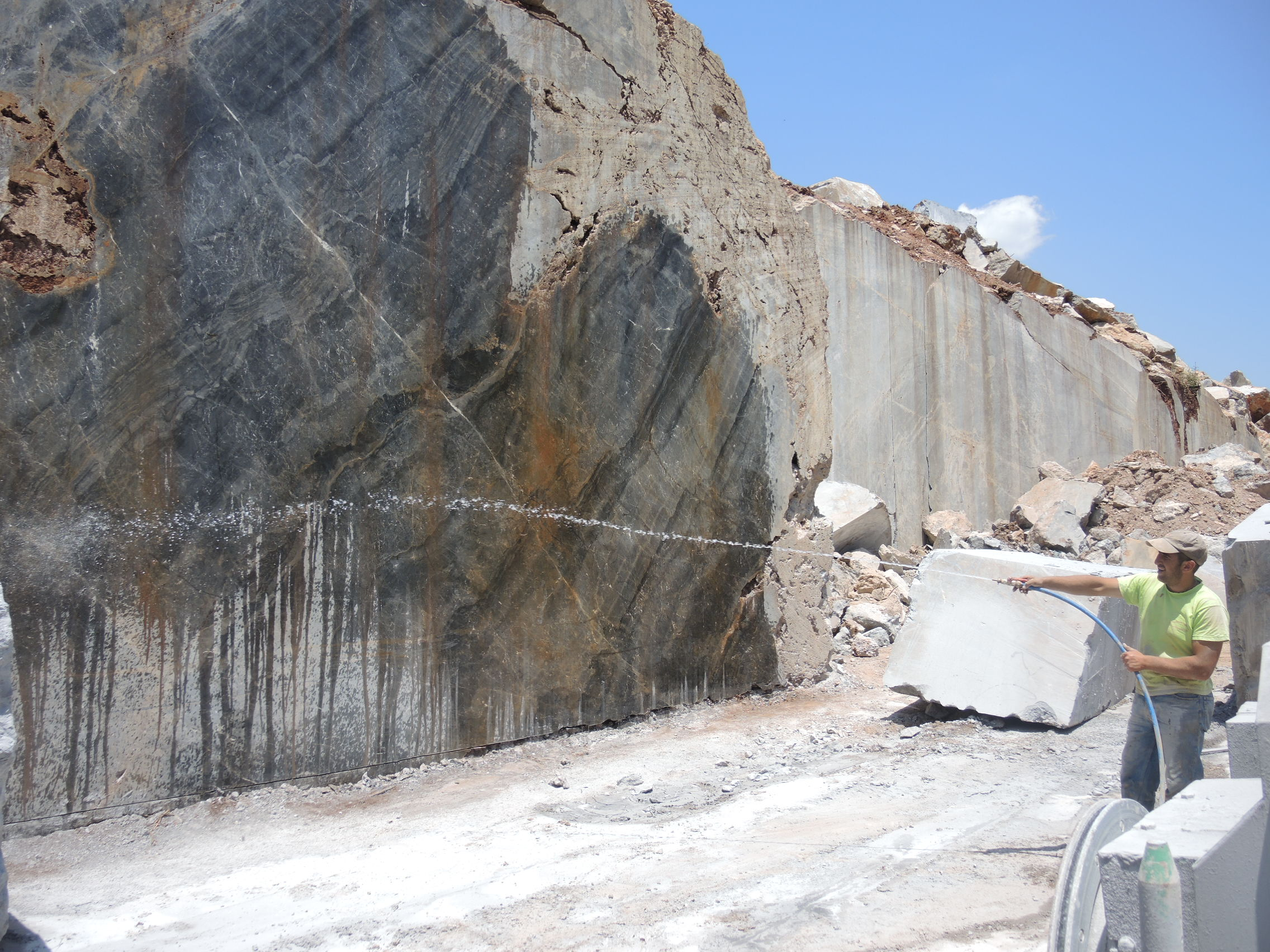 Greek marbles from region argolida Greece